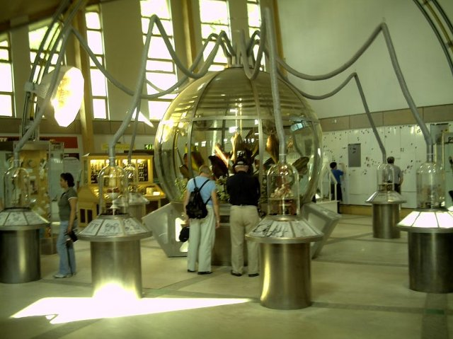 Mysterious plant - the Eden Project